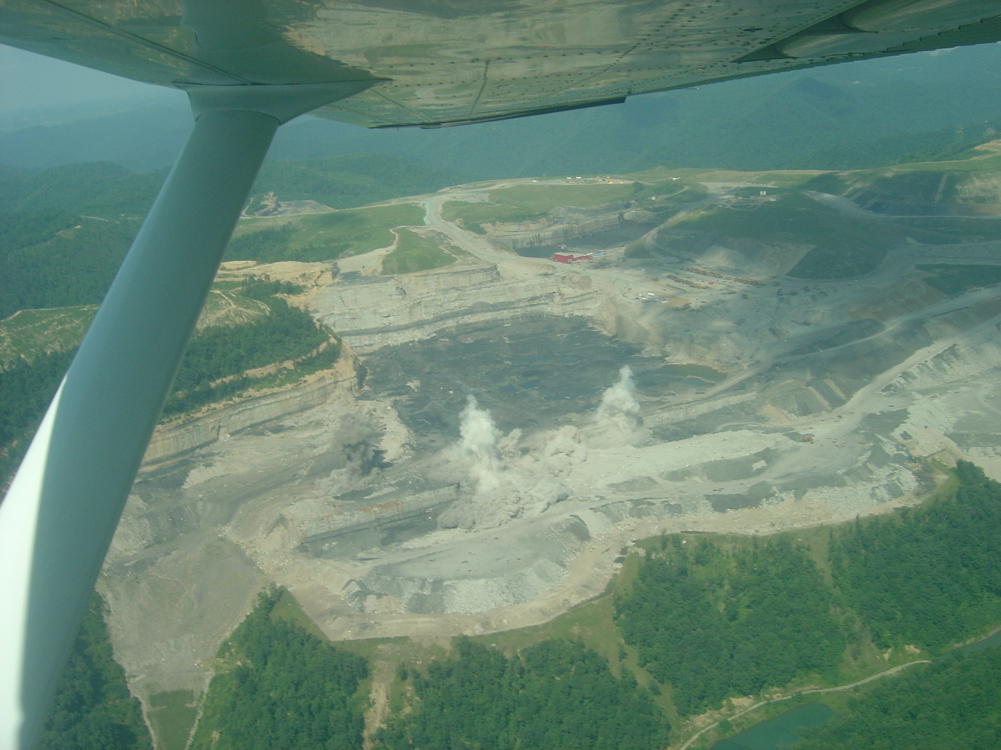 Third image in a series showing a mountaintop removal mining blast in Eunice, WV